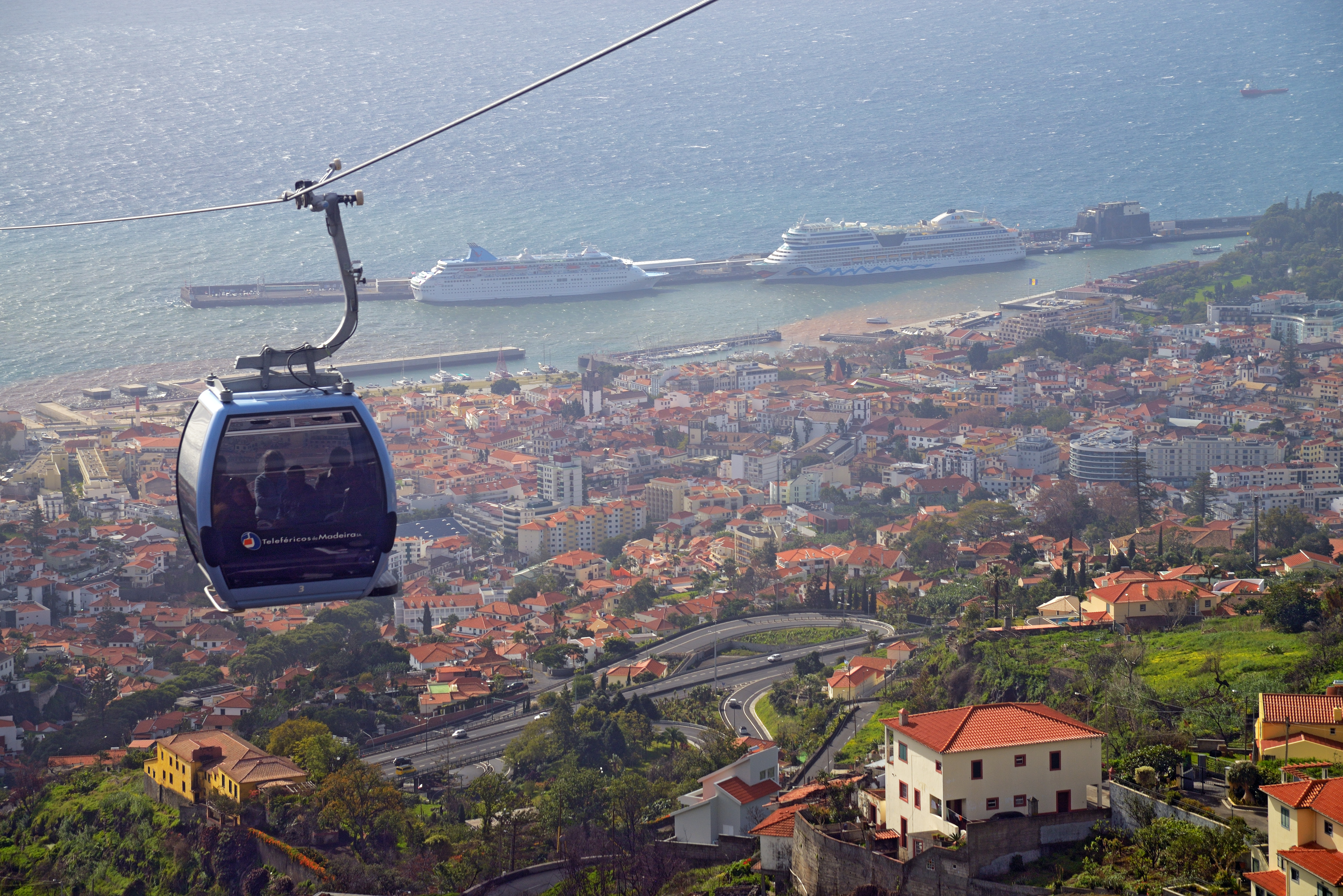 View of Funchal from the Teleferico wagon. Madeira, Portugal